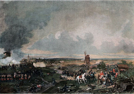 The Battle of Hondschoote 1793 Original typogravure by Boussod & Valadon after a painting by Eugène Lami. 1890